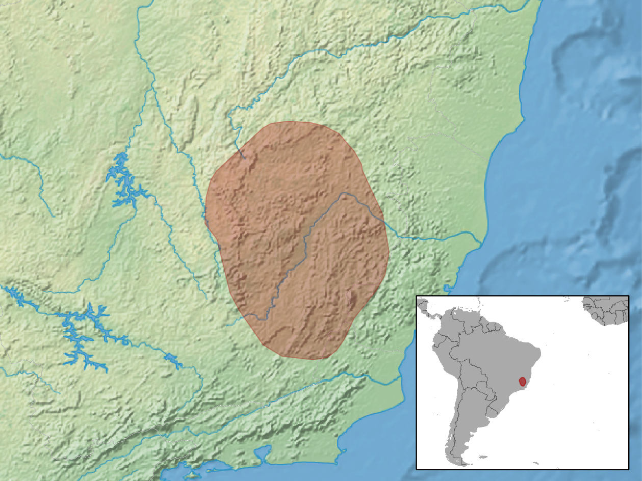 geographic distribution of Trinomys setosus